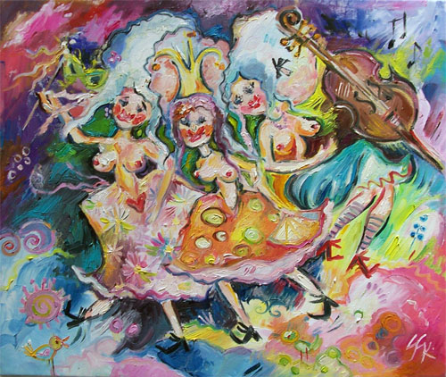 Csilla Krisztina Schneider painter, "A három grácia" made painting of photograph.